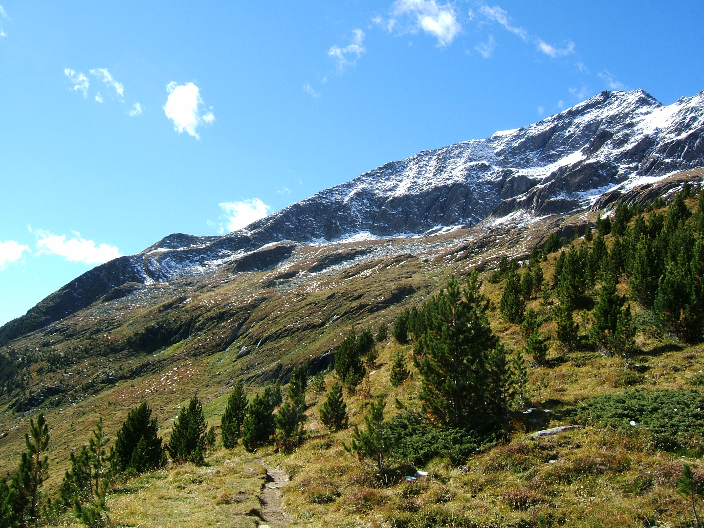 Hirbernock from East, from route to Durra Alm